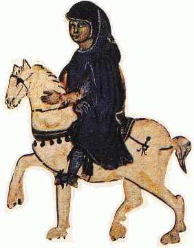 Miniature of Gui d'Ussel from BnF MS 854, folio 89v.